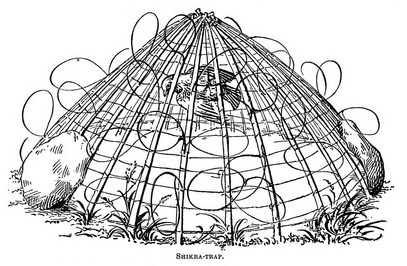 Shikra trap - a Bal-chatri with bird bait